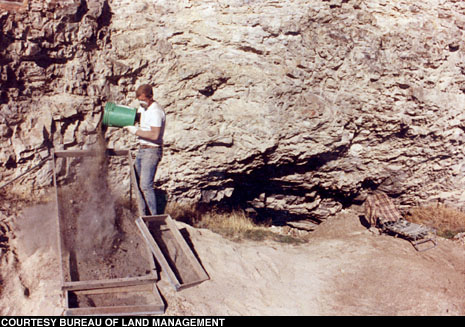 Jack Lee Harelson looting Elephant Mountain Cave in the Black Rock Desert of Nevada. COURTESY of Bureau of Land Management (BLM), an agency within the United States Department of the Interior as cited in: Eric A. Powell. Big Time Fine For Cave Looter. Archaeology (magazine). Volume 56, Number 2, March/April 2003, Available